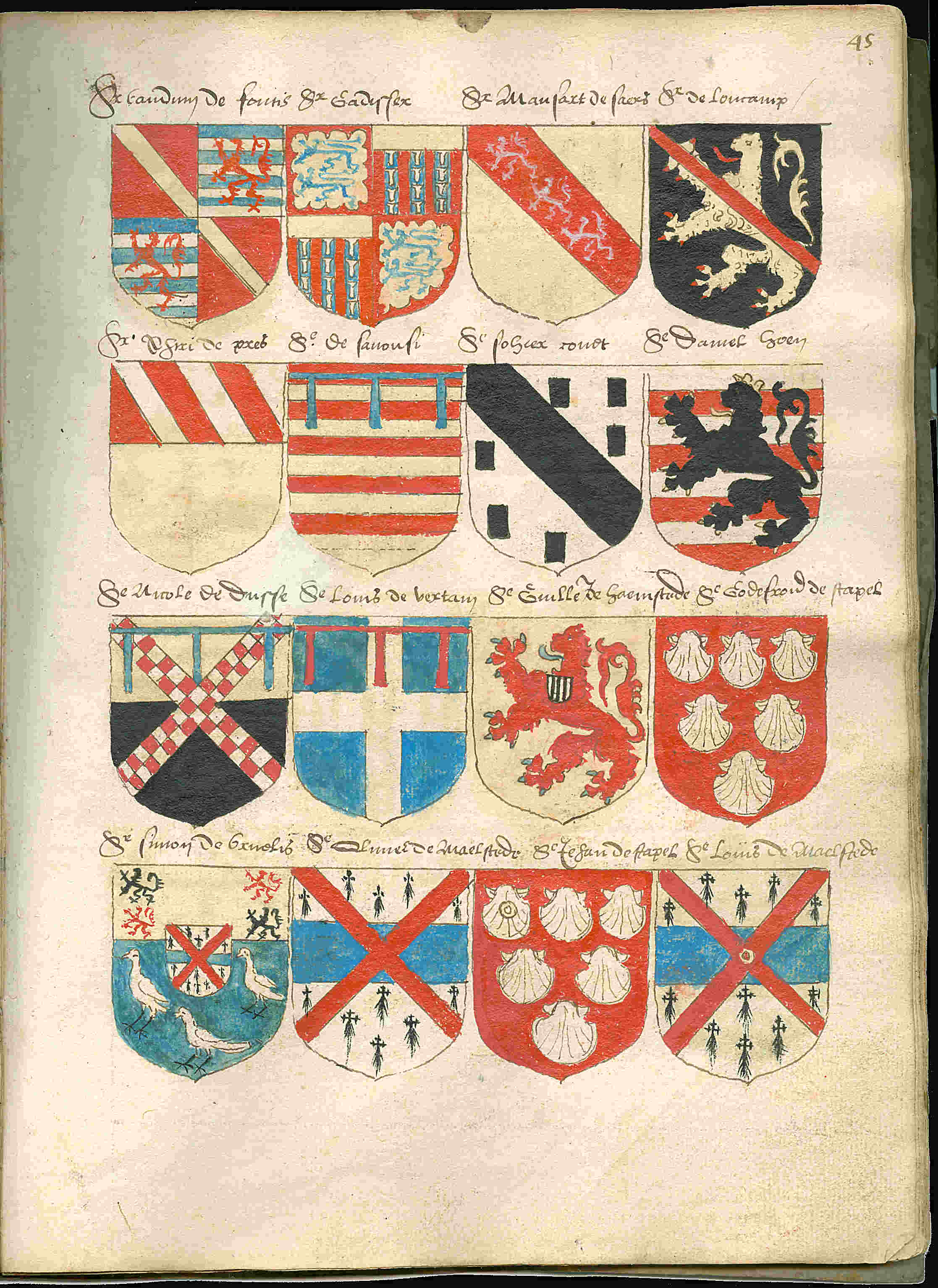 Page 45 from a copy of the Beyeren armorial / Wapenboek Beyeren from ca. 1600. The original Beyeren armorial from 1405 can be viewed at the website of the KB